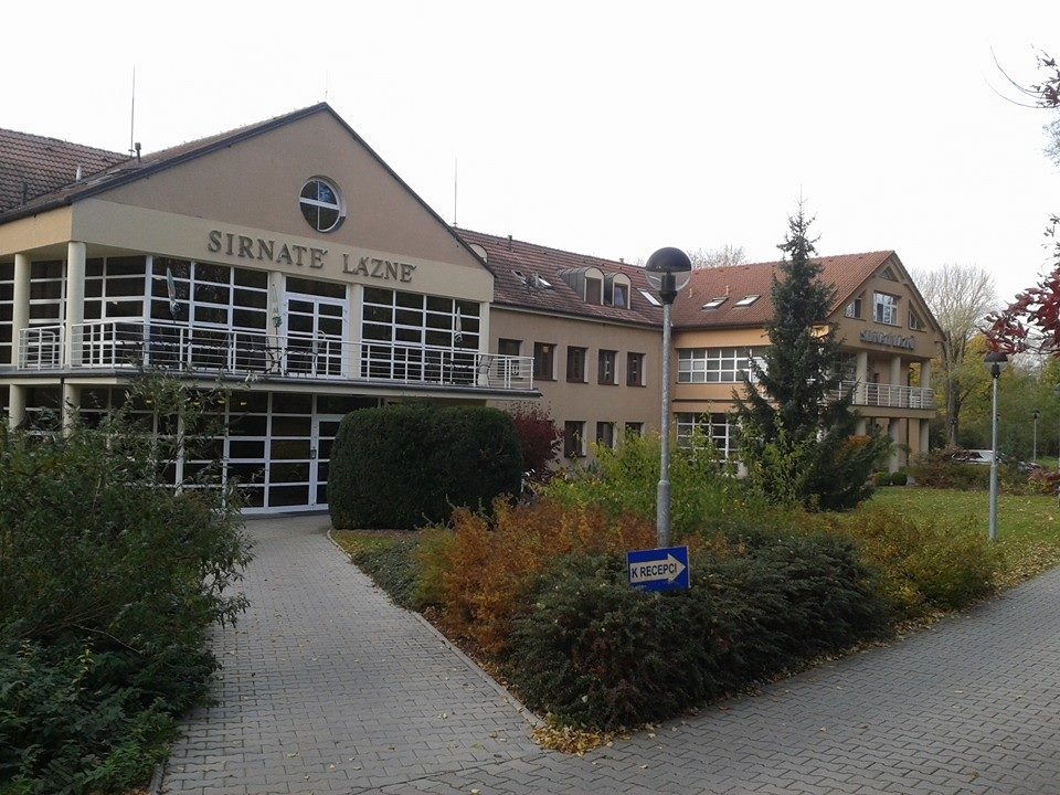 Ostrožská Nová Ves spa